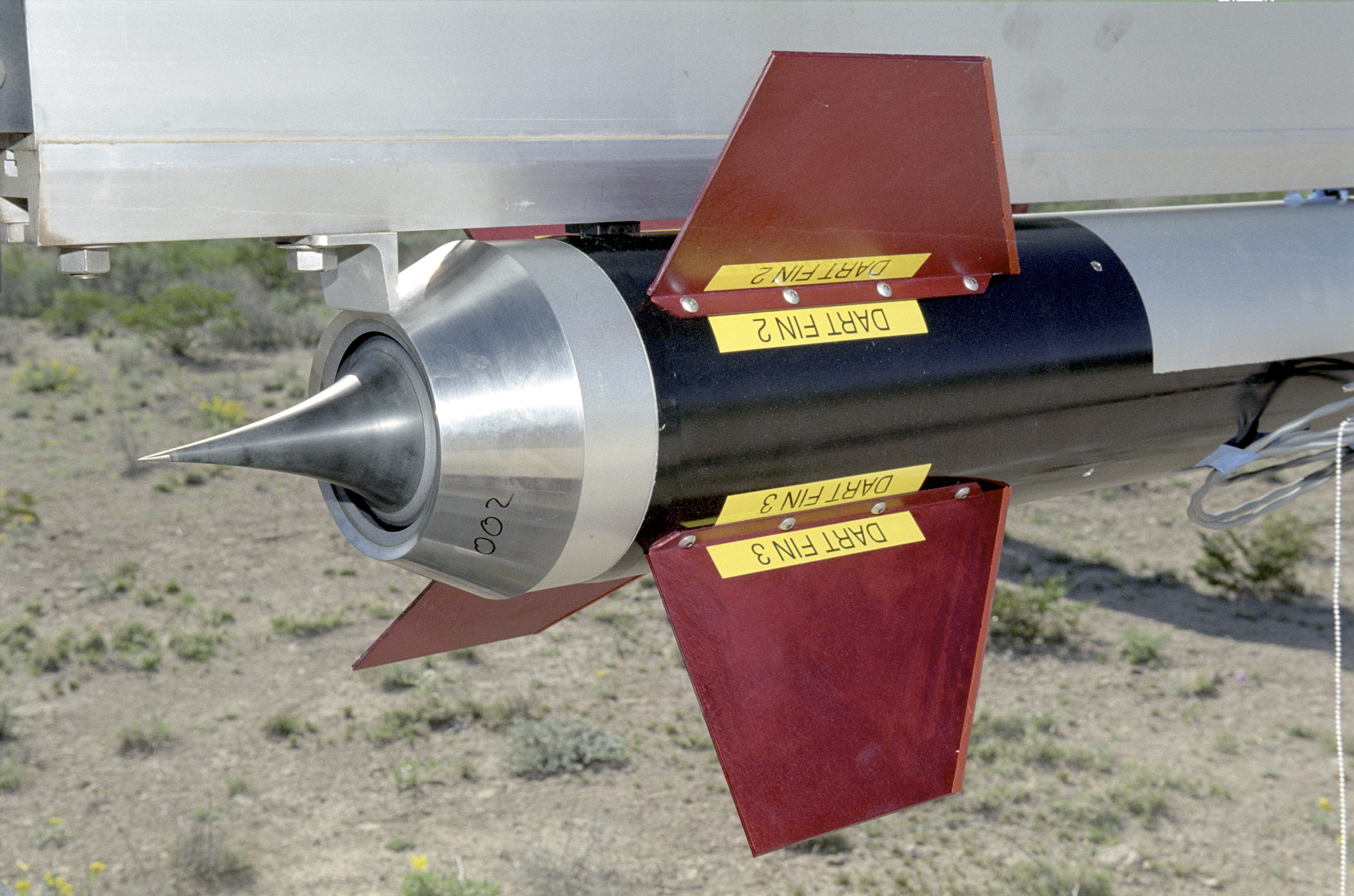 Non-truncated toroidal aerospike nozzle used to propel a solid-fuel rocket to 26,000ft at NASA's Dryden Research centre in March 2004